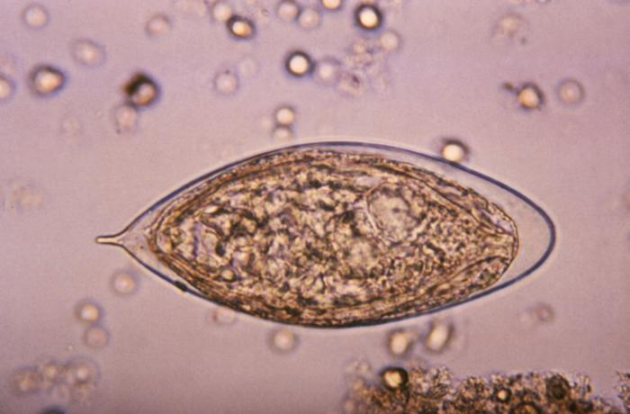 ID#:4843 This micrograph depicts an egg from a Schistosoma haematobium trematode parasite; magnified 500x. Note the egg's posteriorly-protruding, terminal spine, unlike the spinal remnant, which protrudes from the lateral wall of the Schistosoma japonicum egg. These eggs are eliminated in an infected human's feces or urine, and under optimal conditions in a watery environment, the eggs hatch and release "miracidia", which then penetrate a specific snail intermediate host. Once inside the host, the S. haematobium parasite passes through two developmental generations of sporocysts, and are released by the snail into its environment as "cercariae".